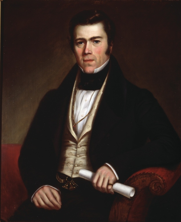 Portrait of John Redpath (1796-1869)